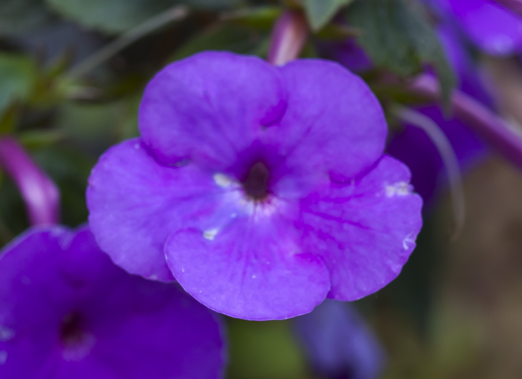 Achimenes purpurea, Tallinn Botanic Garden, Estonia